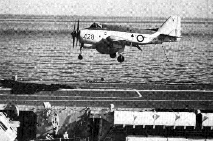 A Royal Navy Fairey Gannet AEW.3 of B Flight "The Bees", 849 Naval Air Squadron, lands aboard the aircraft carrier HMS Victorious (R38), circa 1961.